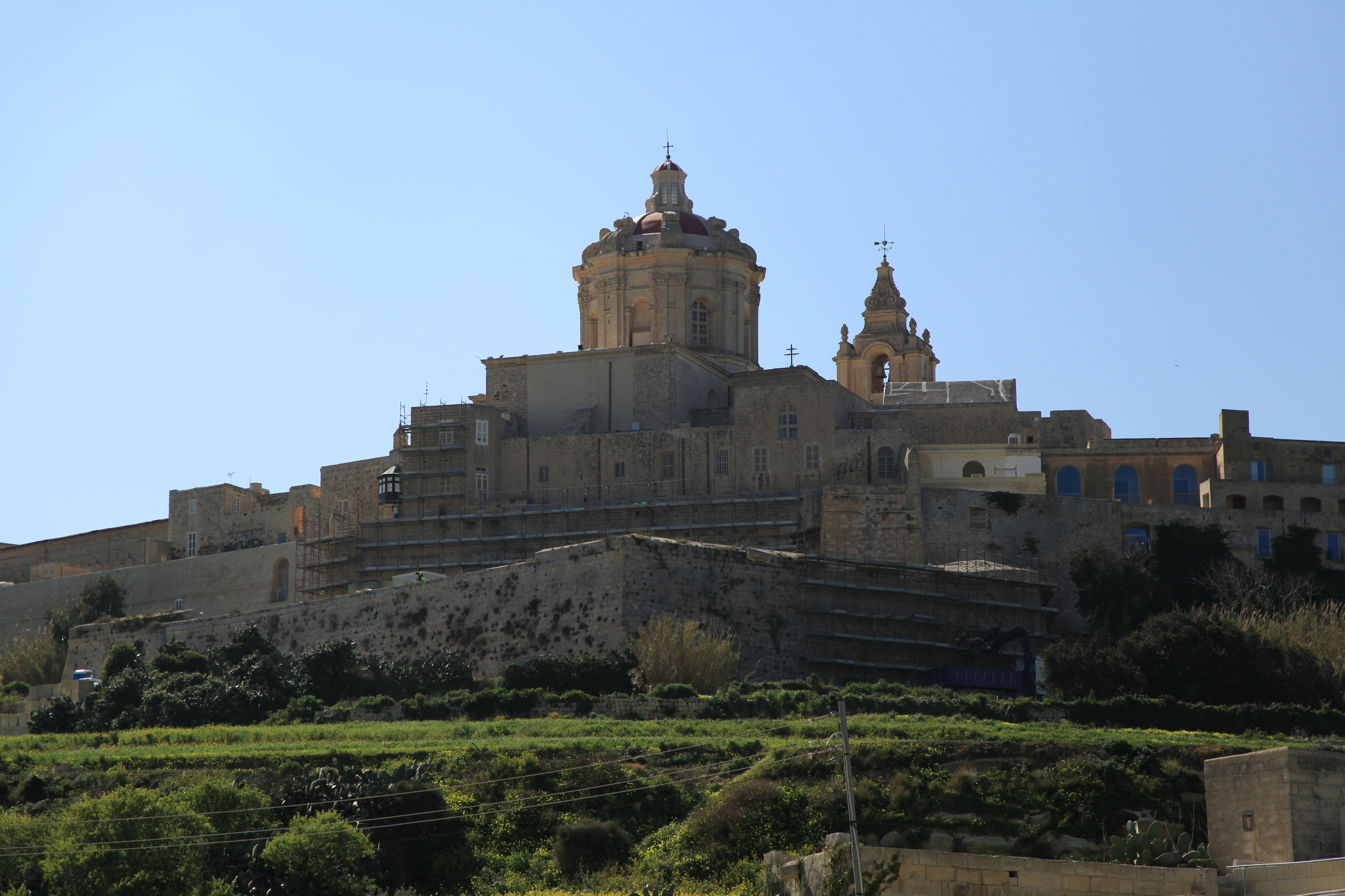 View from a Malta sightseeing north tour bus to Mdina, Malta